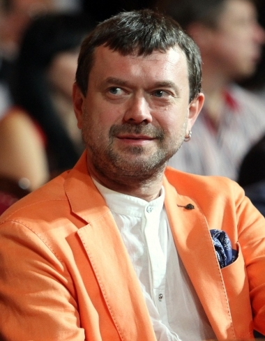 Ostap Stupka, Odessa International Film Festival, July 2013